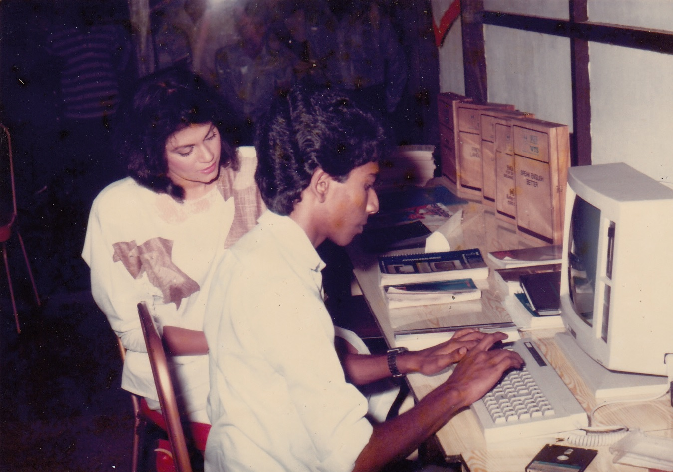 Rosy Senanayke officiating as the Chief Guest of a Computer Training Center during the late 1980s. Also in the picture is Priyanke (Anthonus) de Silva demonstrating the training packages and a new computer system.